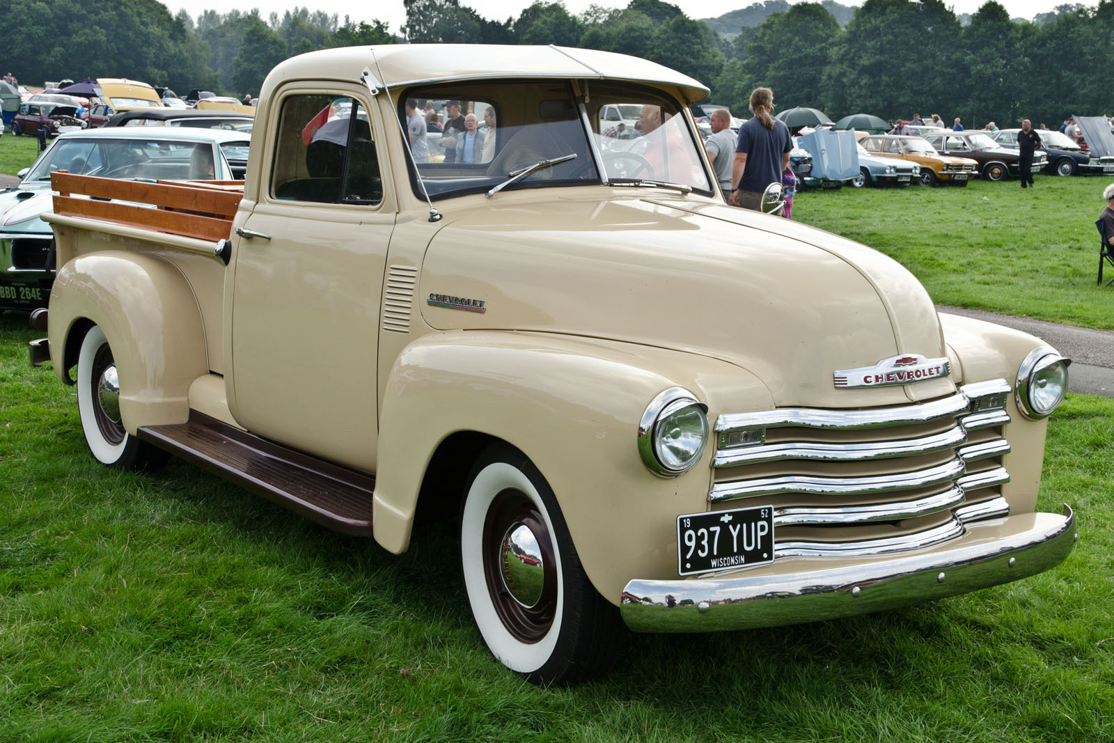 Capesthorne Hall Classic Car Show 25/08/2013